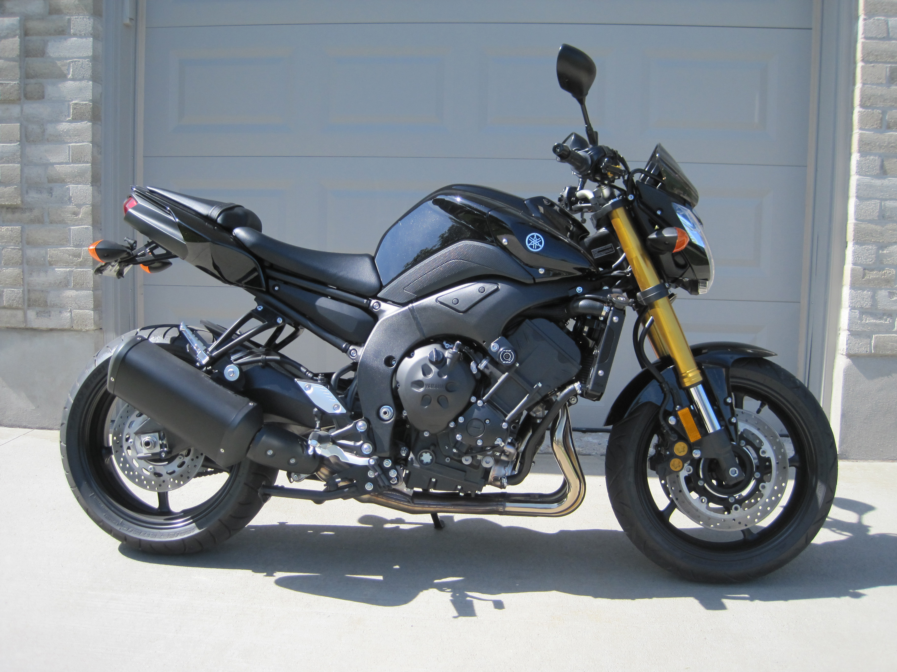 FZ8(2011) shown with a tidy tail, frame sliders, centre stand, pazzo levers, fly screen and radiator cover. Black is the only colour available in Canada for this model year. No ABS.